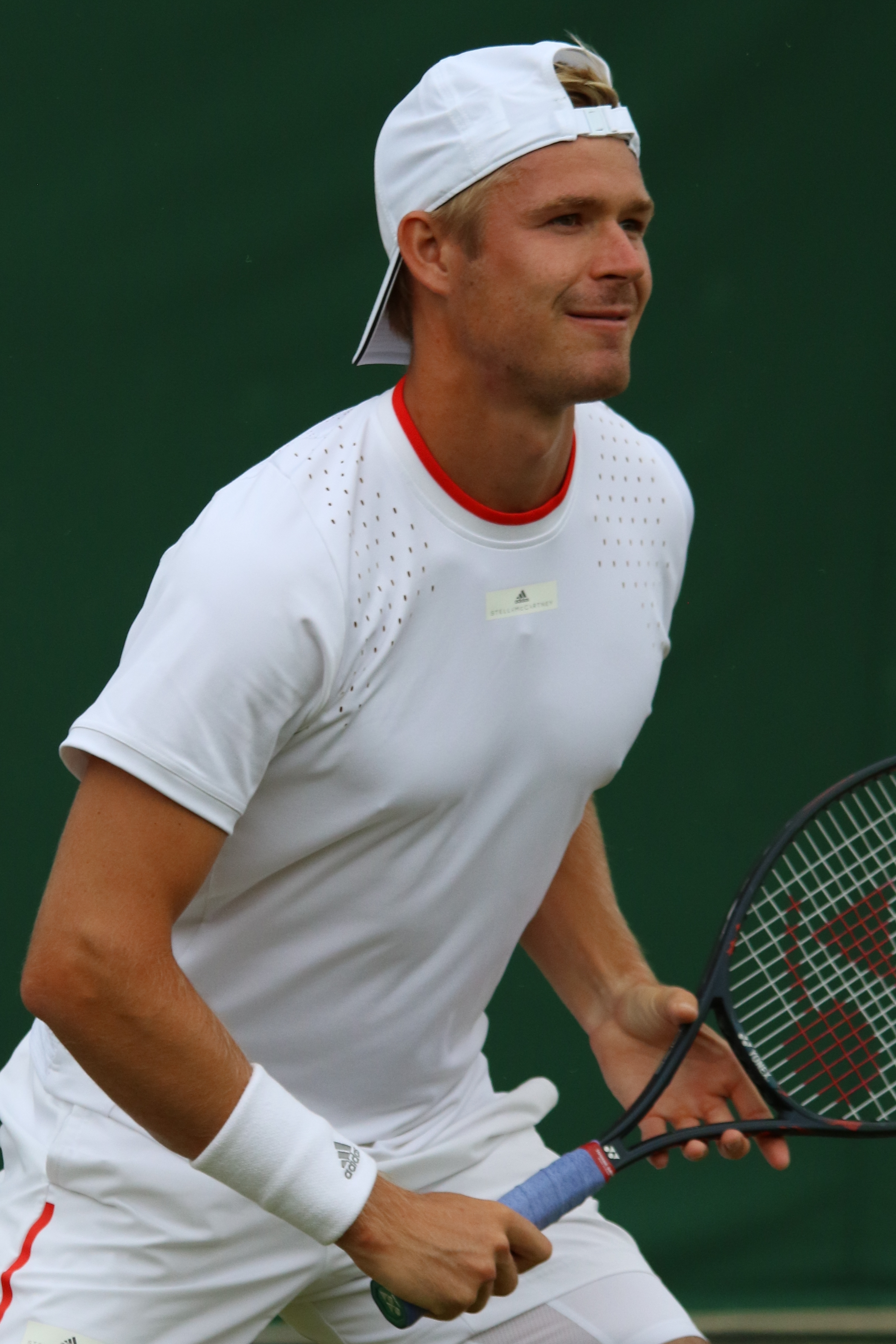 Hoyt WM19 (19)